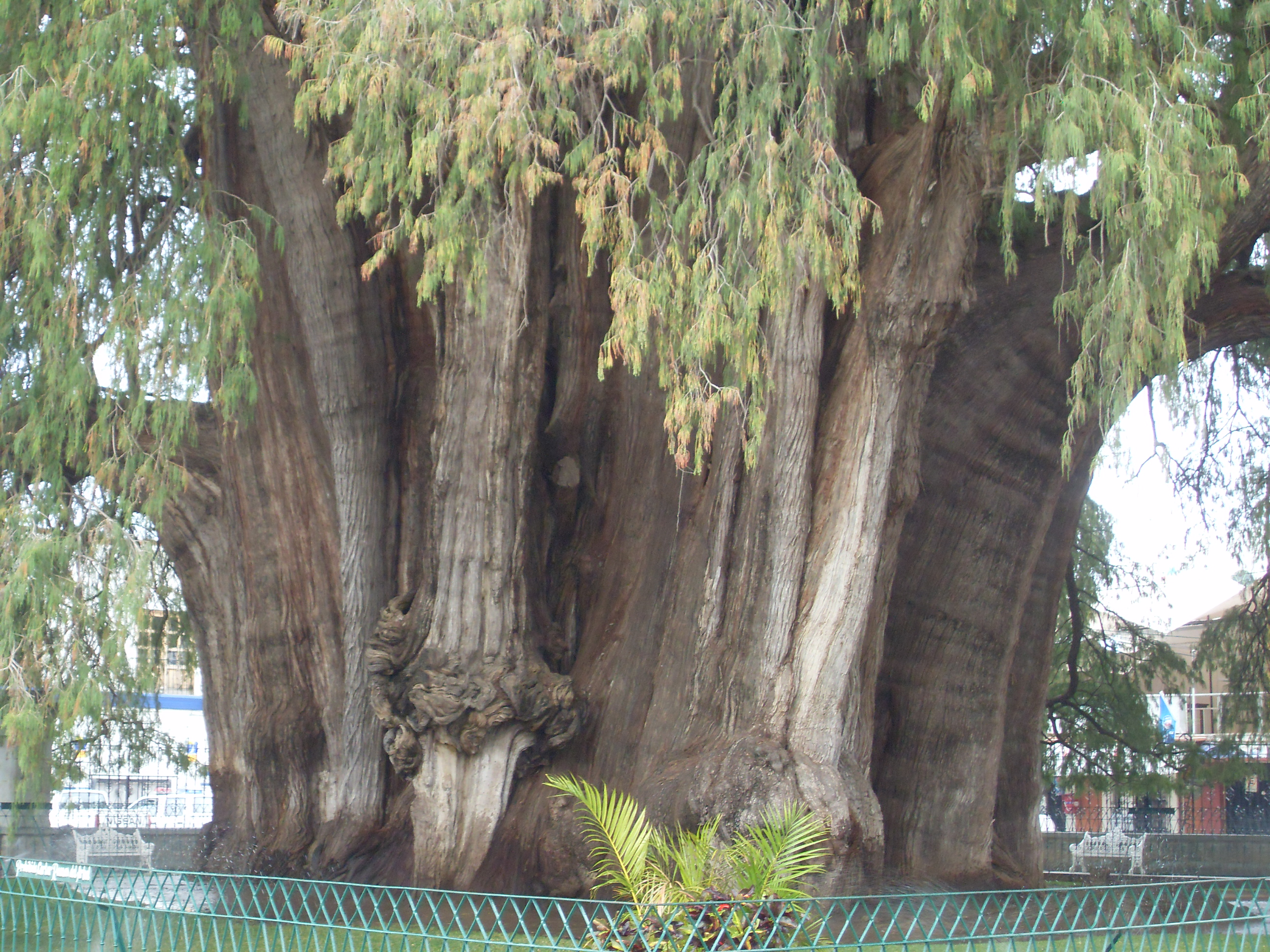 Tule tree in Mexico